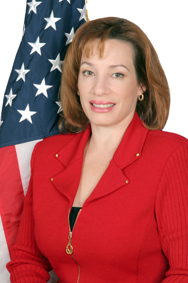 Tracey Ann Jacobson, U.S. Ambassador to Tajikistan.